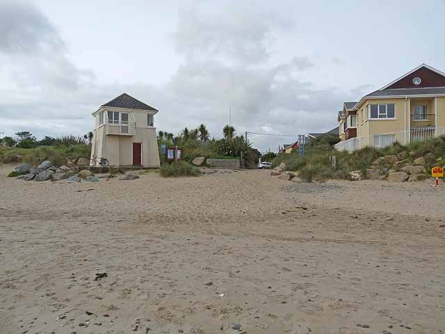 Beach access, Rosslare Strand